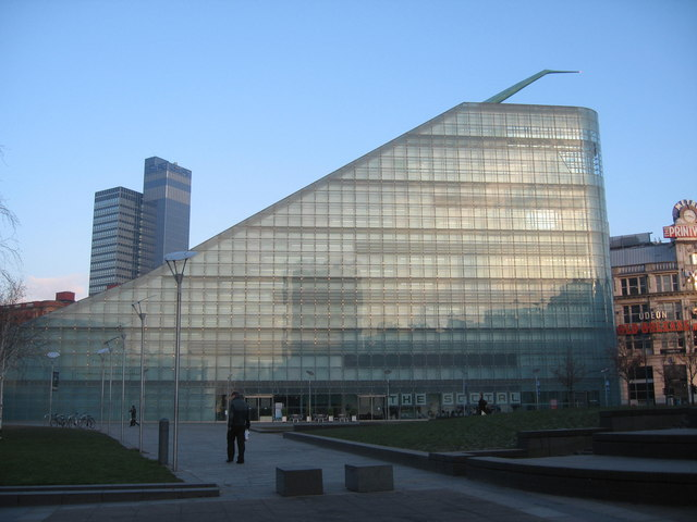 The Urbis Building Urbis, set in Cathedral Gardens, a new green space in Manchester's Millennium Quarter, is one of the city's few island buildings. Designed by Ian Simpson Architects and standing 35 metres high, it houses a museum and exhibition centre focusing on city life which covers photography, design, architecture, music, contemporary art and also offers free interactive exhibits, family activities, a shop and a cafe bar. Urbis is visually striking, its shimmering glass skin comprises of 2,200 glazed units, each one individually fashioned to form the sculptured surface of the building, reflecting the surrounding cityscape.